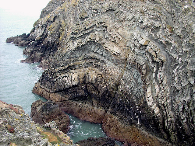 Sea cliff at South Stack. The photo was taken from South Stack itself, looking across the narrow channel separating the stack from Holy Island. The rocks are pre-Cambrian Greywackes and are approx 600 million years old. The rocks have been contorted and twisted by high pressure and temperature in the earth's crust.